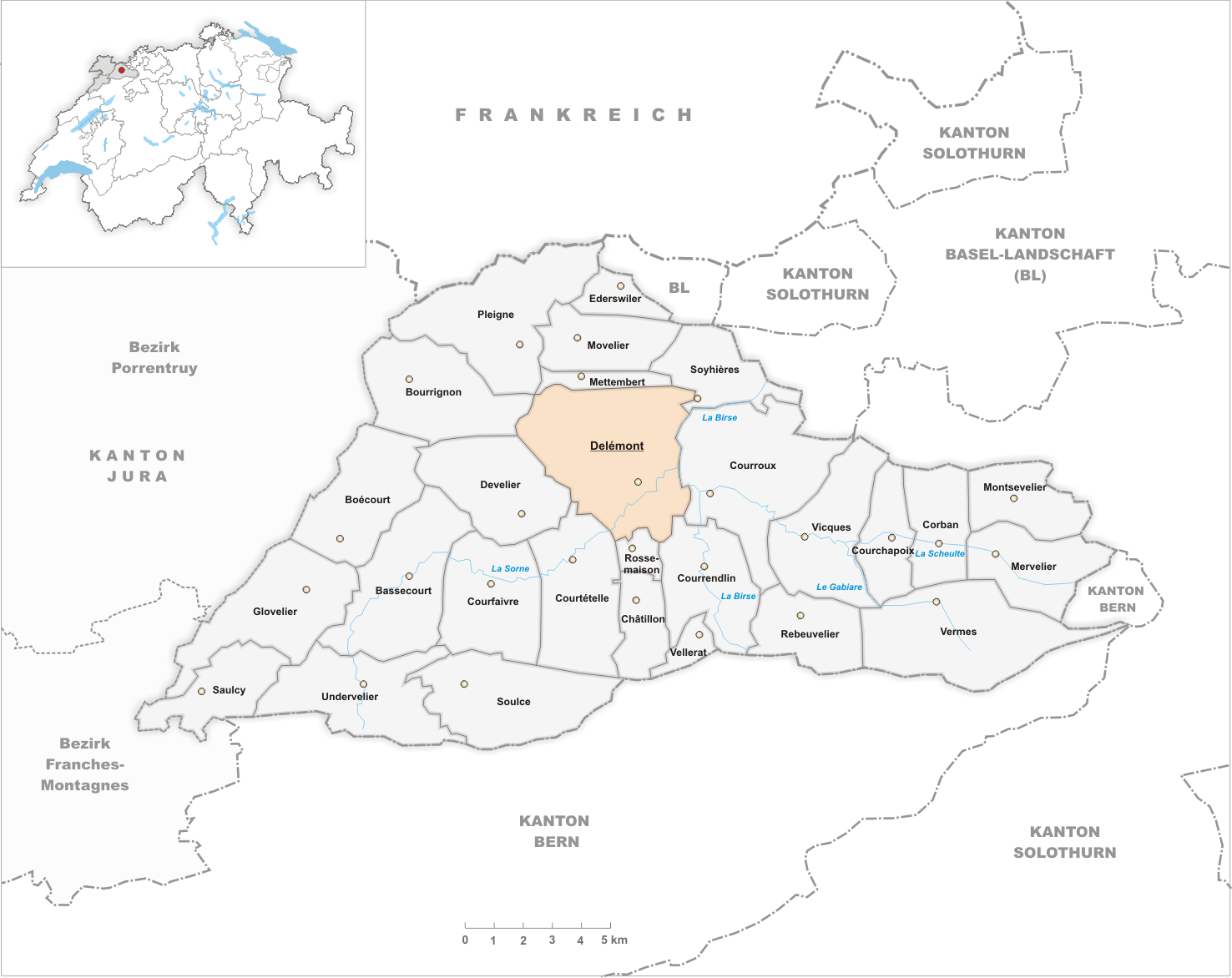 Municipality Delémont